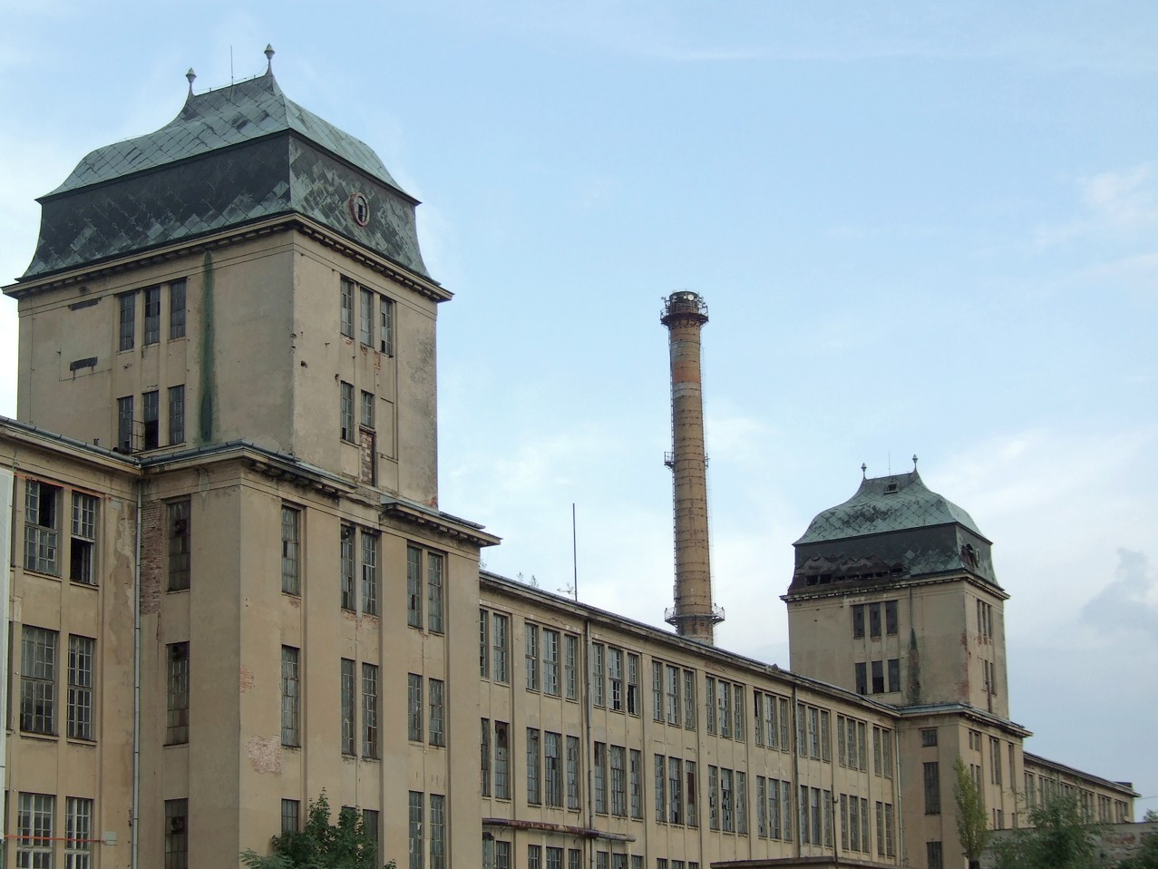 The towers of the former wool factory in Zielona Góra Wieże dawnej fabryki "Polska Wełna" Author: Mohylek 09:49, 30 October 2006 (UTC)